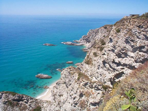 Capo Vaticano (beach). Shot by Marcomob